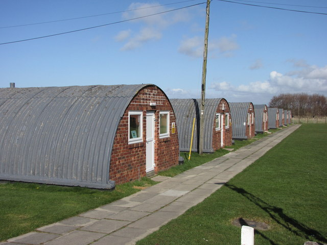 Nissen Huts I first saw these Nissen Huts at Altcar Camp in 1973; they are still in use in 2009.